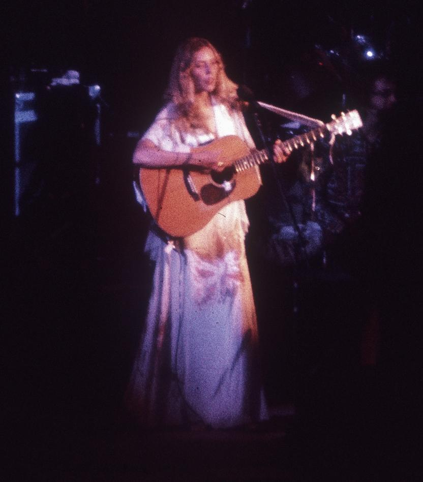 Joni Mitchell - Court and Spark tour March 5, 1974 Anaheim Convention Center w/Tom Scott & The LA Express Frame 18 Crop 8000dpi slide scan (original)